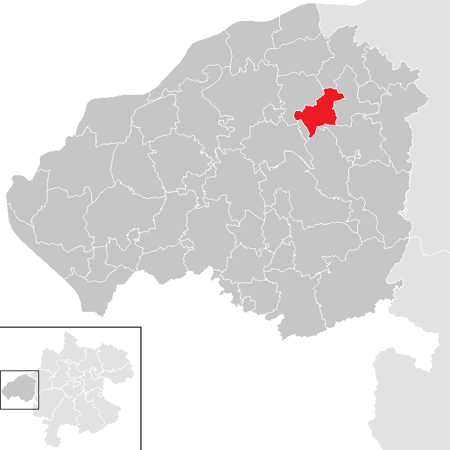 district Braunau am Inn